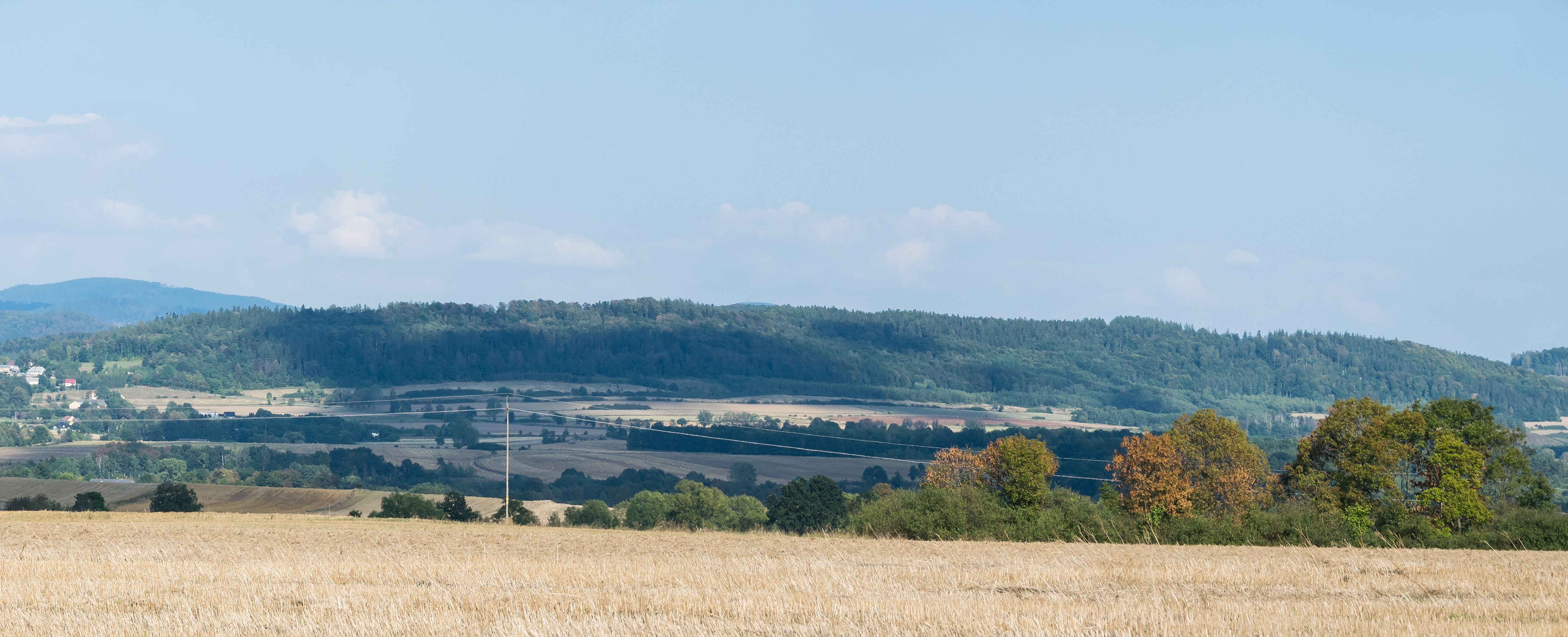 Krowiarki, Śnieżnik Mountans, Sudetes This is a photography of protected area with CRFOP ID PL.ZIPOP.1393.N2K.PLH020019.H